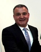 Mexican Secretary of Public Security Genaro Garcia Luna